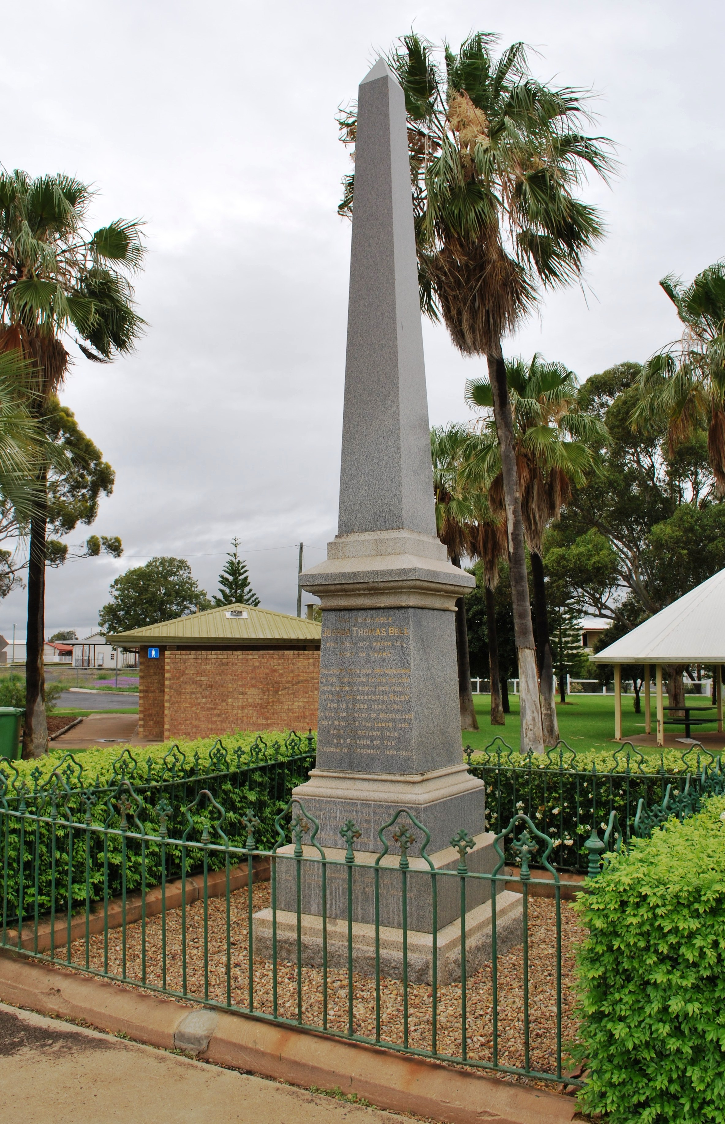 Memorial to Sir Joshua Thomas Bell at Dalby, Queensland